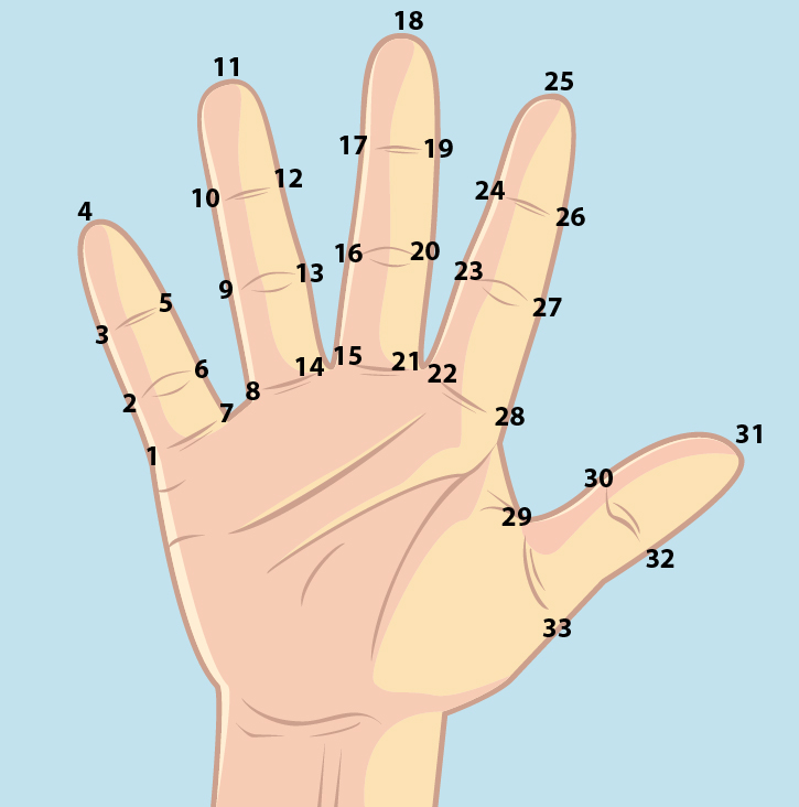 A method for Tasbih 33 times with right hand.